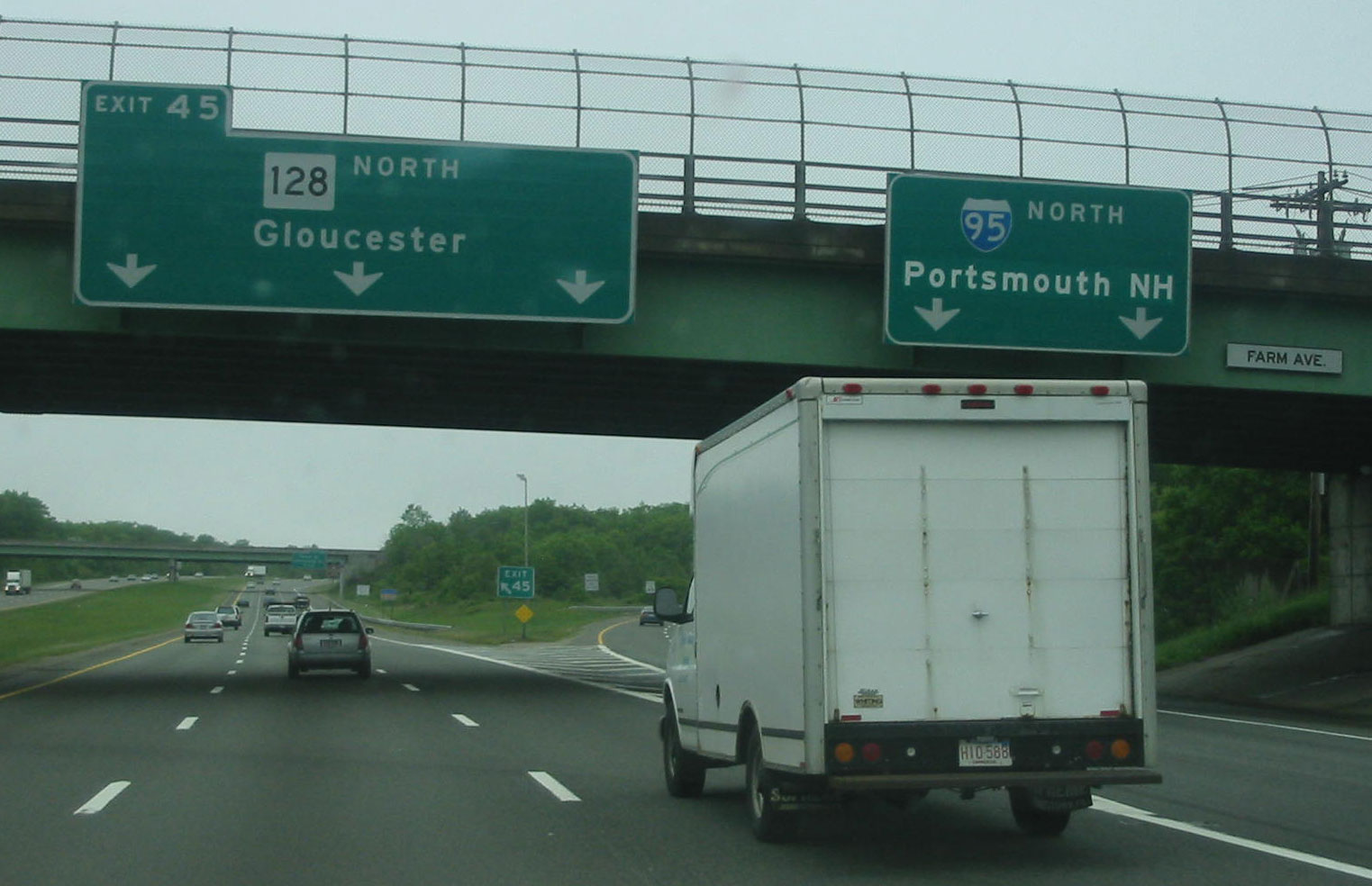 I-95 north at exit 45 in Massachusetts. Taken May 26, 2004 by SPUI.